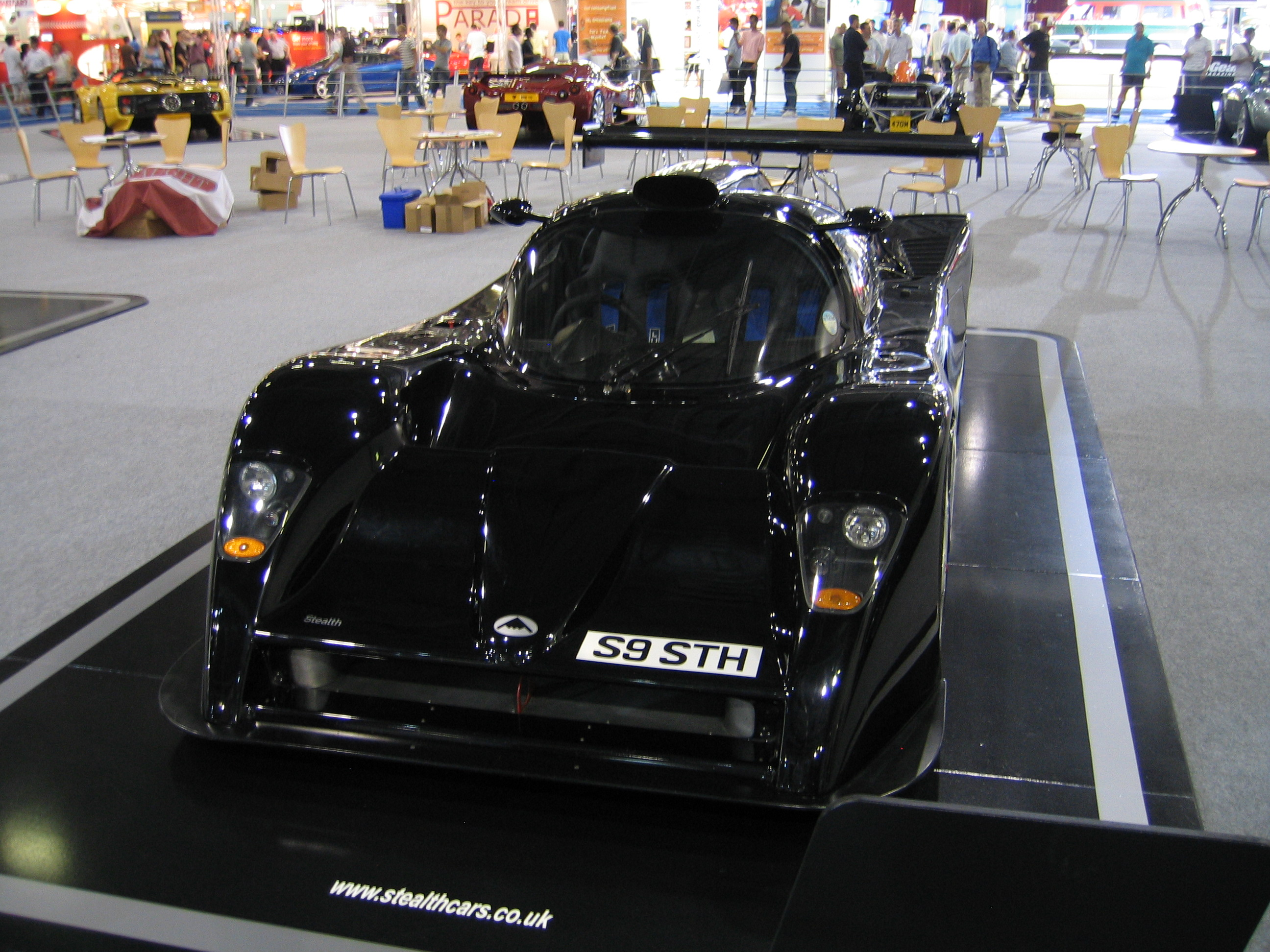 Stealth B6